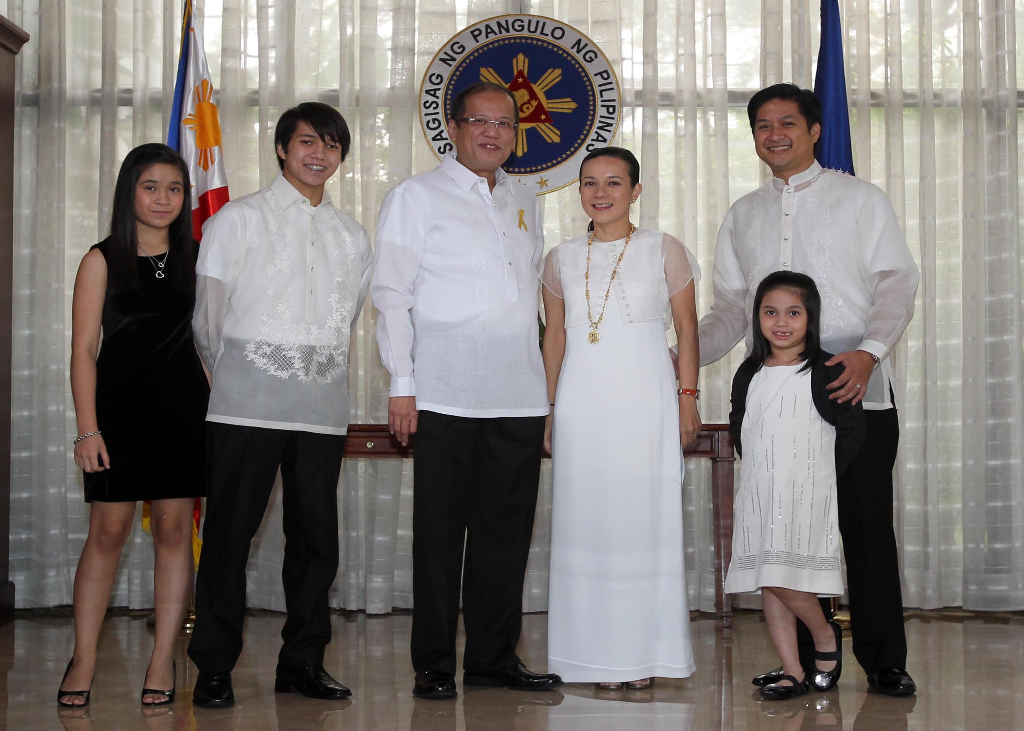 A photo of President Benigno Aquino III with Grace Poe-Llamanzares, who he swore in as chairman of the Movie and Television Review and Classification Board (MTRCB), and her family on October 21, 2010. The official description is as follows: “ President Benigno S. Aquino III poses with newly-installed Movie and Television Review and Classification Board (MTRCB) Chair Mary Grace Poe Llamanzares (4th from left), daughter of the late Philippine Movie King Fernando Poe Jr., and her family Thursday (October 21, 2010) at the Bonifacio Hall, Premier Guest House, Malacañang. Llamanzares has set her sights on fighting film piracy, providing incentives to producers who come up with exceptionally good movies and reducing the tax burden of film outfits. (Photo by Ryan Lim/Malacañang Photo Bureau/PNA) ”